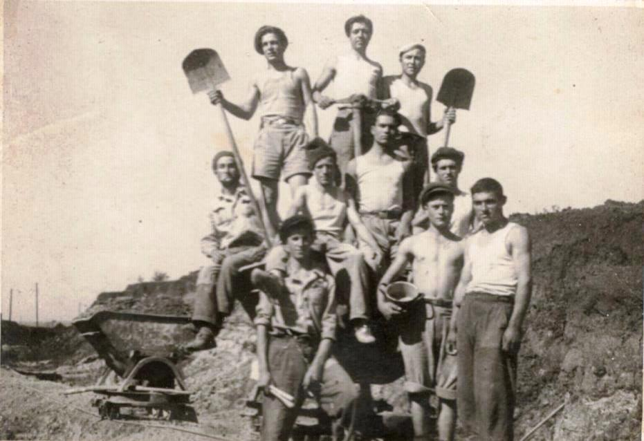 Voluntary labourers of the bulgarian "Brigadirsko dvizhenie", after 1945